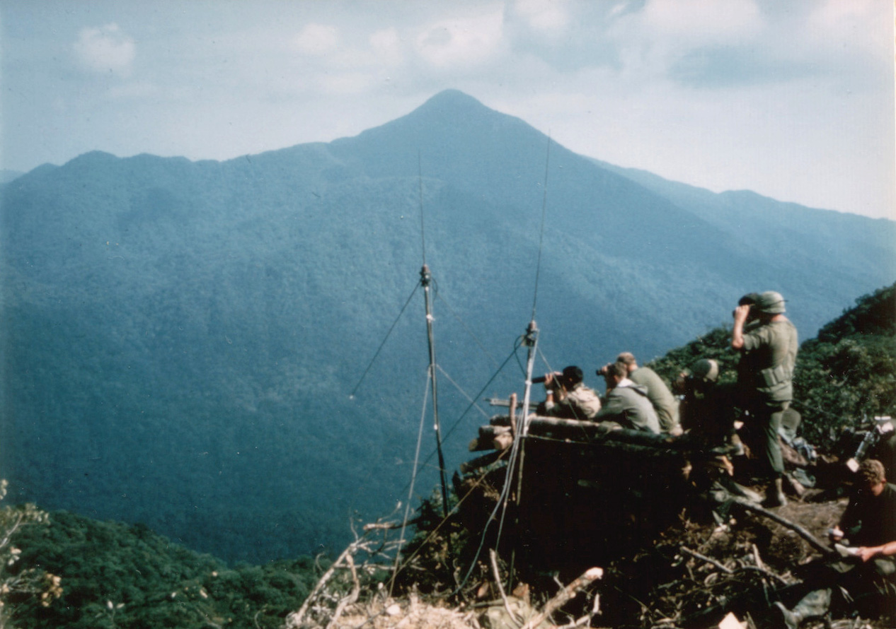 April 24, 1968. LRPs on Signal Hill scanning for enemy vehicles in A Shau Valley below.